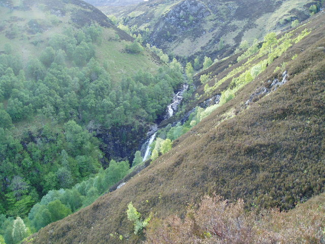 Kilfinnan Falls. Water level was low at the time. This is on one of the descent paths (?) following Allt a' Choire Ghlais from the summit of Sron a' Choire Ghairbh and Meall na Teanga.